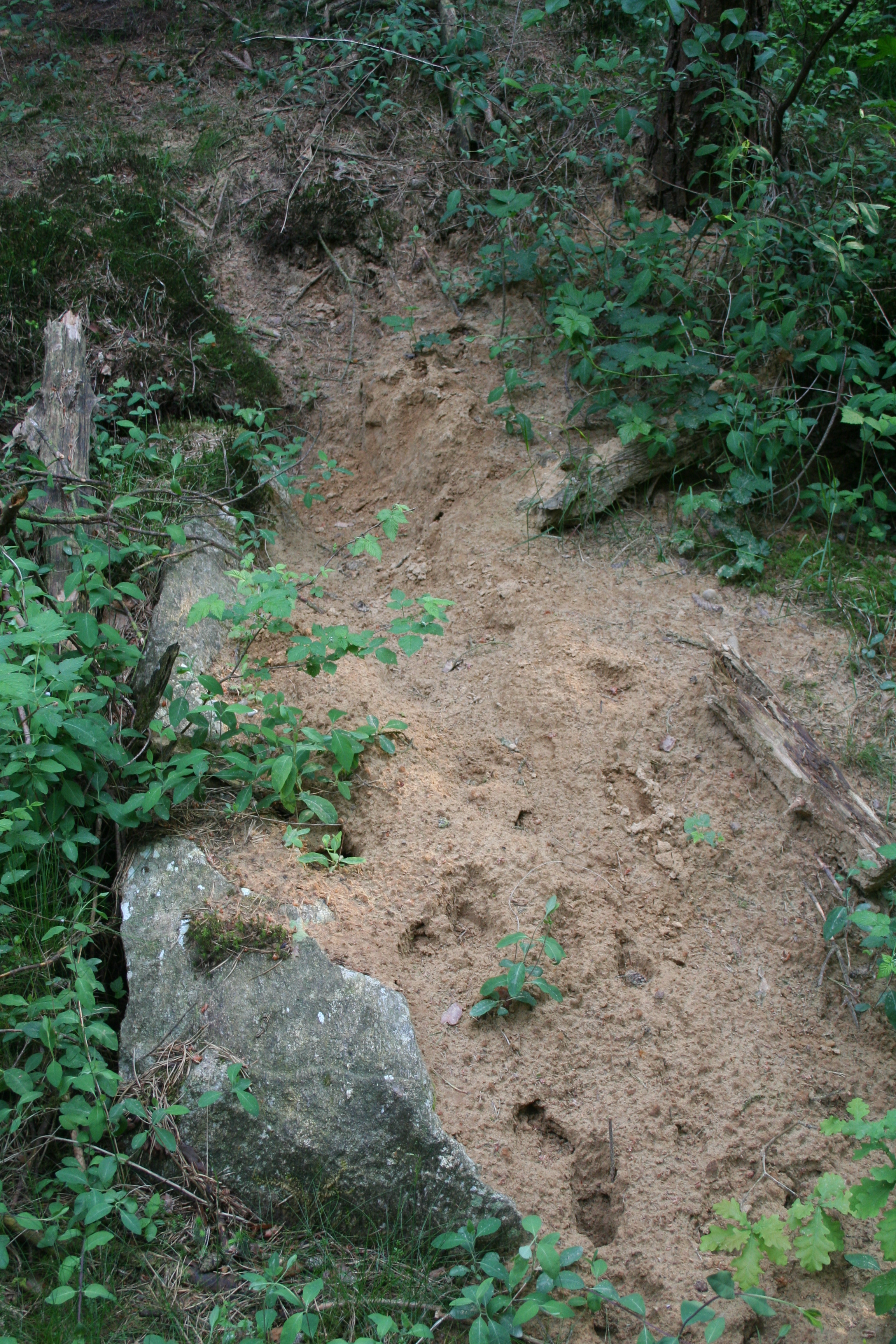 Megalithic tomb Steden 3